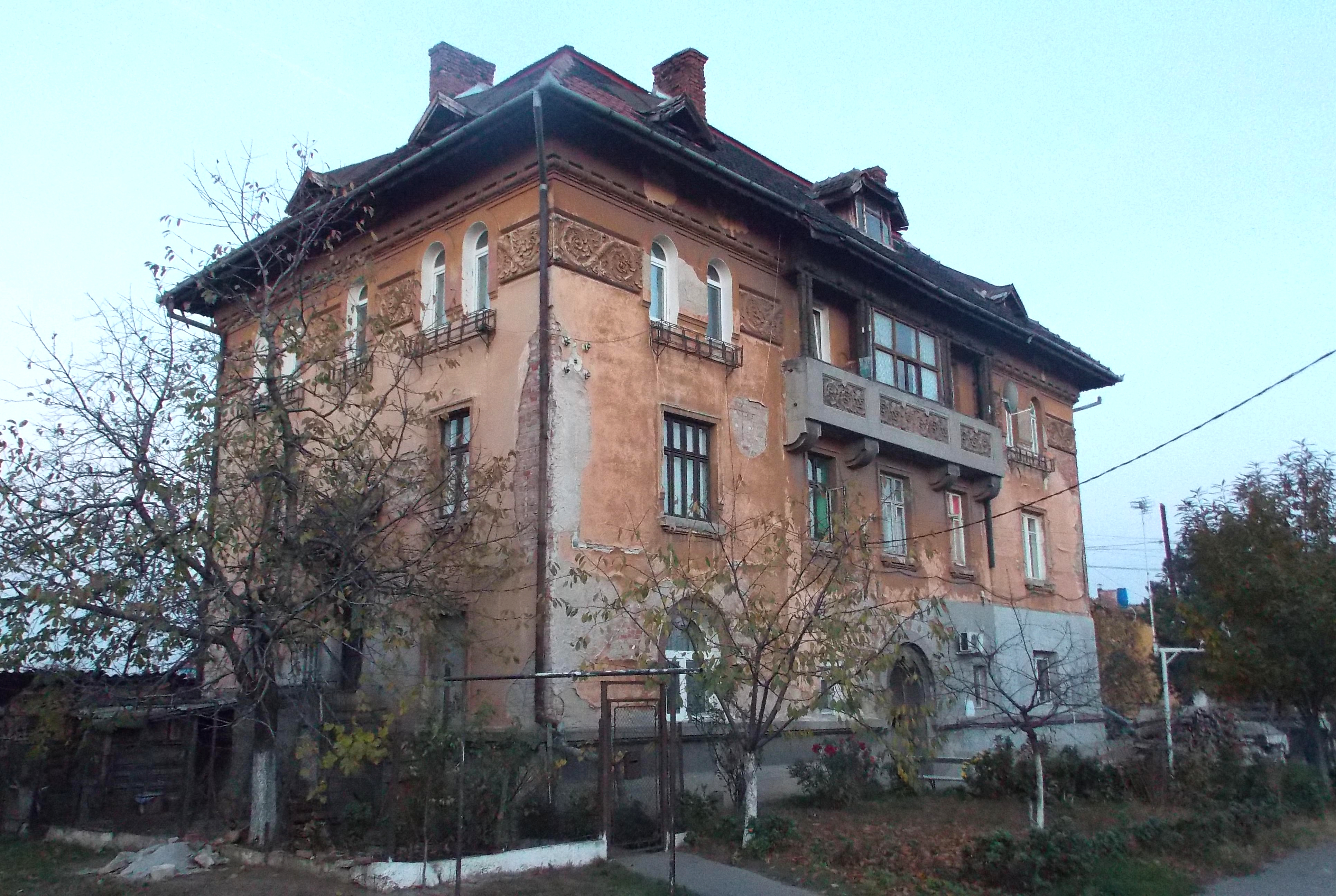 Episcopia Bihor Train Station complex - aparment building at no. 34